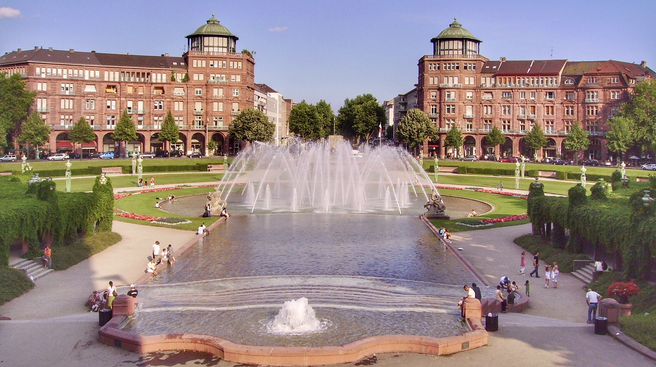 water tower of Mannheim, Germany